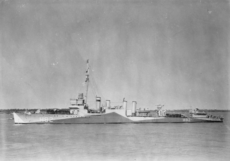 British Warships of the Second World War The destroyer HMS BURNHAM underway at Charlestown, South Carolina, America.